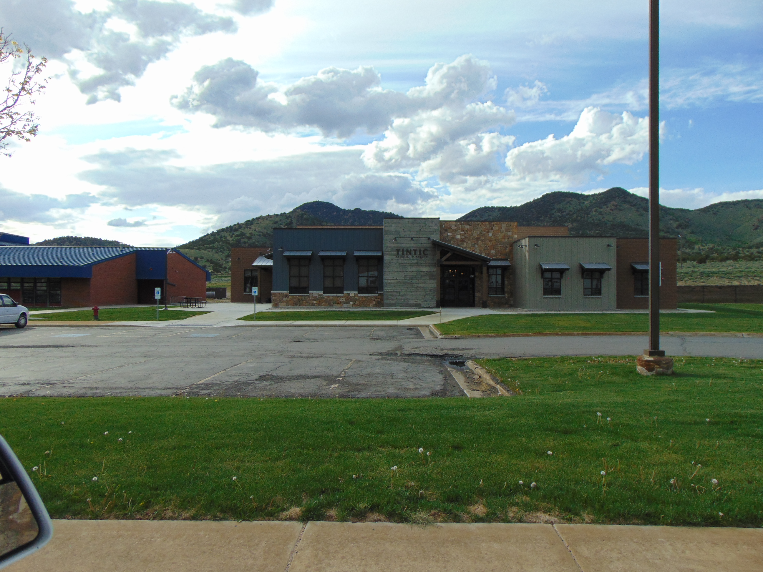 Looking north at the Tintic School District office building (as well as the east end of Tintic High SchooL) in Eureka, Utah, May 2016